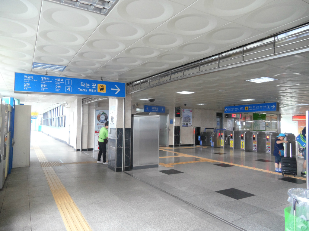 Waiting room of Gunpo Station